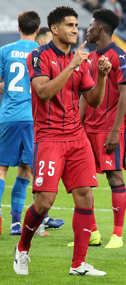 Pablo Nascimento Castro